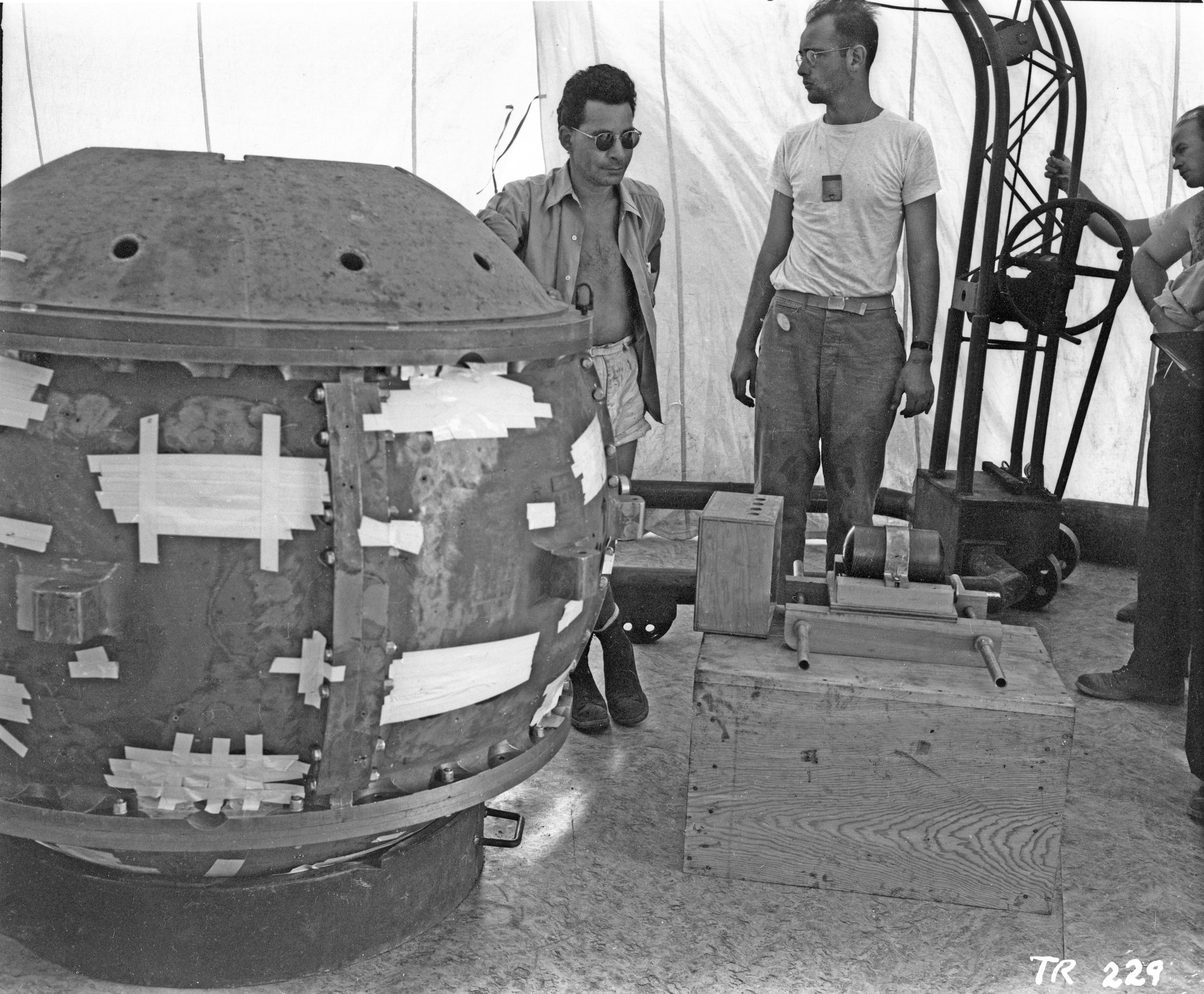 Louis Slotin during the preparation of the first nuclear experiment "Trinity Test"